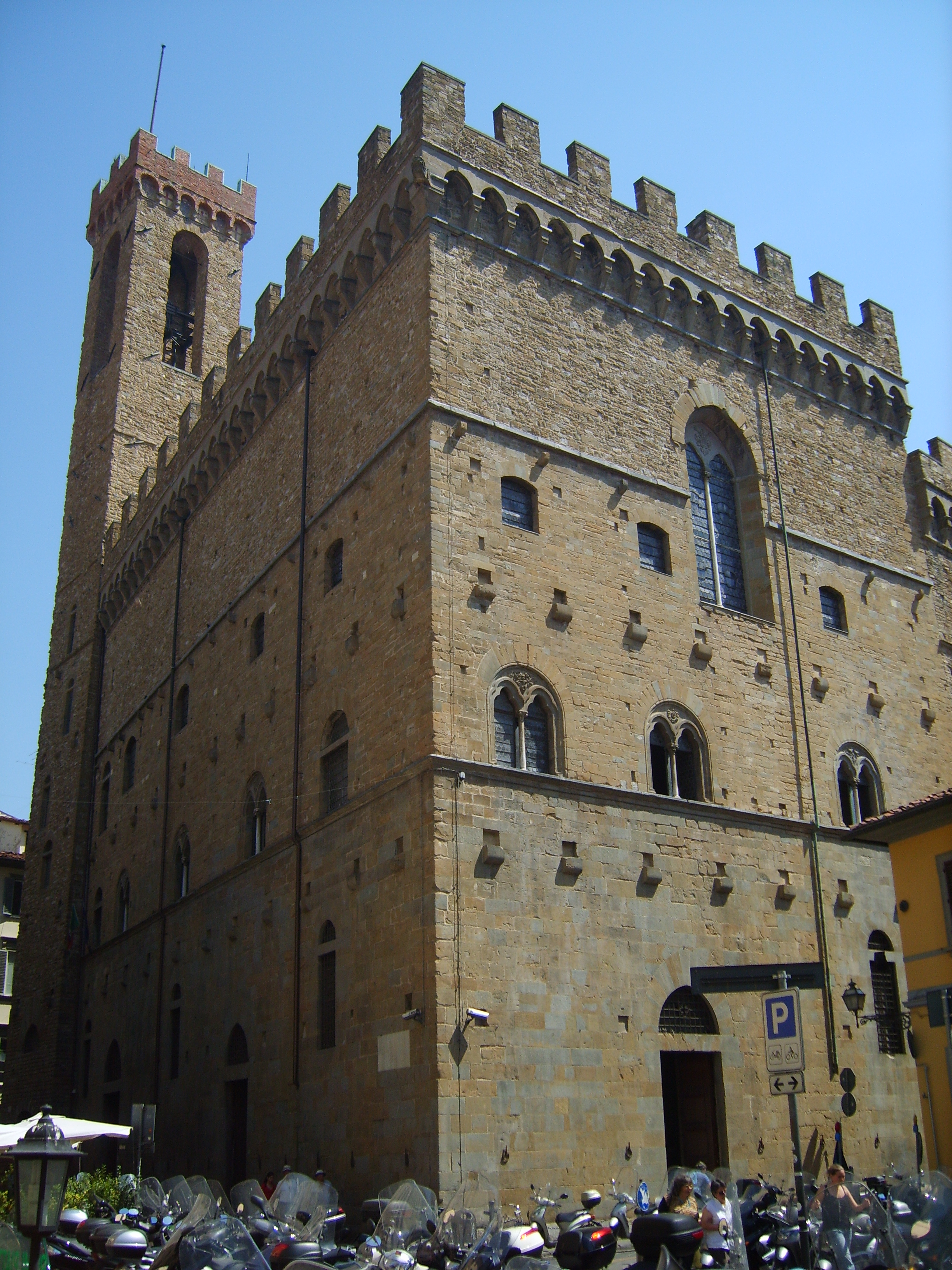 Bargello palace, in Florence, Italy.